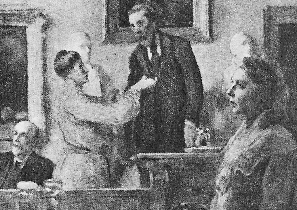 First admission of lady Fellows to the Linnean Society of London